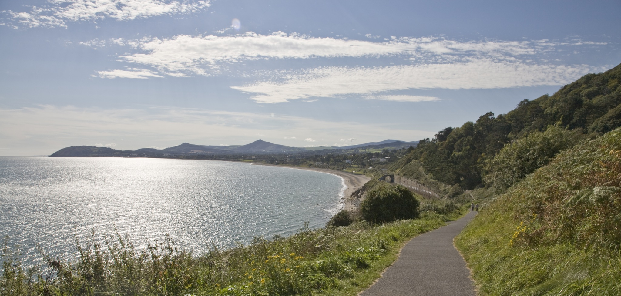 Killiney (Cill Iníon Léinín in Irish, meaning "church of the daughters of Leinin") is a townland in south County Dublin, Ireland on the outskirts of Dublin city within the administrative area of Dun Laoghaire Rathdown County Council. The area is by the coast, south of neighbouring Dalkey, and north to Shankill area in the most southern outskirt of Dublin. It features a village centre and a range of surrounding housing developments. Killiney Hill Park was opened in 1887 in honour of Queen Victoria's 50 years on the throne. The park boasts magnificent views of Dublin Bay, Killiney Bay, Bray Head and the mountain of Great Sugar Loaf (506 m), stretching from the Wicklow Mountains right across to Howth Head. The Park's topography is quite dramatic and its highest point, at the obelisk, is 170 metres above sea level. Other major and minor attractions include Killiney Beach, Killiney Golf Club, a local Martello Tower, and the ruins of Cill Iníon Léinín, the church around which the original village was based. The coastal areas of Killiney are often favourably compared to the Bay of Naples in Italy. This comparison is reflected in the names of surrounding roads, like Vico, Sorrento, Monte Alverno, San Elmo, and Capri. On clear days, the Mourne Mountains of County Down can be seen, although this is less and less frequent due to air pollution. The park was once part of the estate of Killiney Castle, now a hotel.